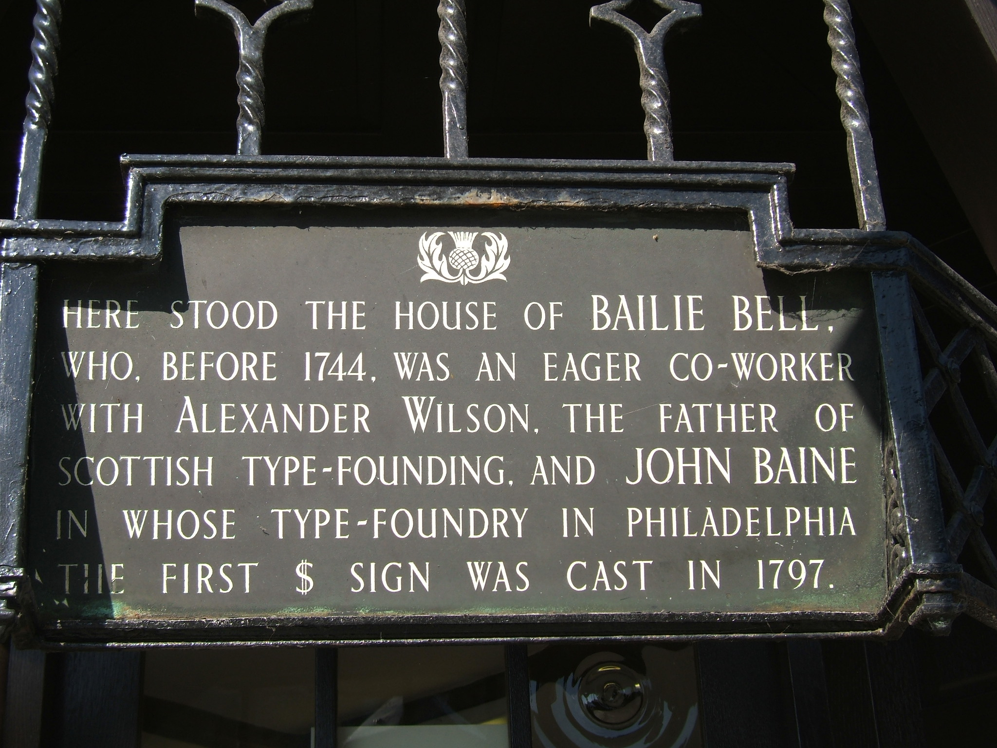 Plaque in St Andrews, Fife, Scotland reading: "Here stood the house of Bailie Bell, who, before 1744, was an eager co-worker with Alexander Wilson, the father of Scottish type-founder, and John Baine, in whose type-foundry in Philadelphia the first $ sign was cast in 1797."